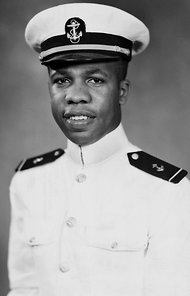 Former U.S. Navy lieutenant commander Wesley Anthony Brown.